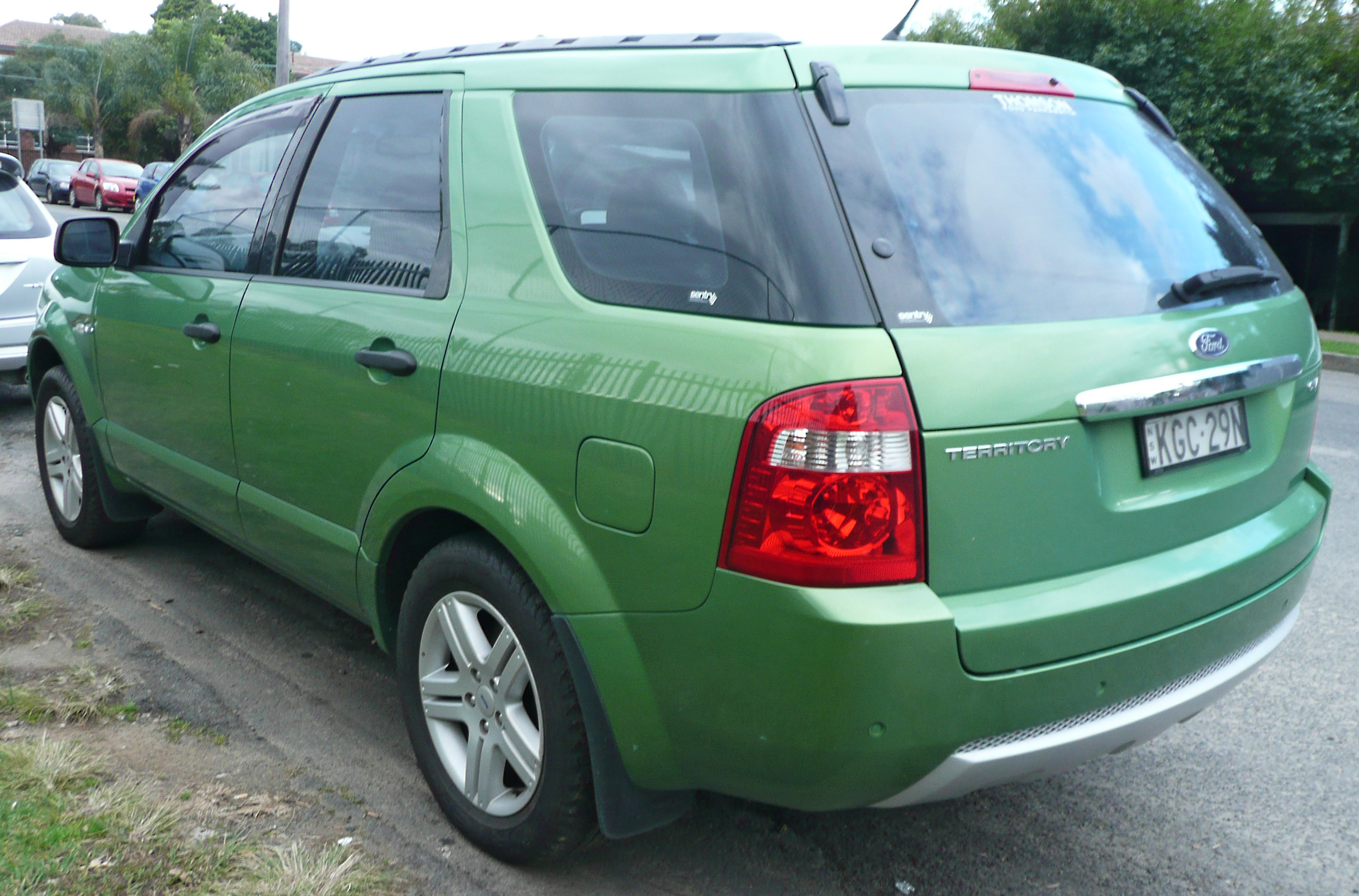 2004–2005 Ford Territory (SX) Ghia wagon. Photographed in Sutherland, New South Wales, Australia.